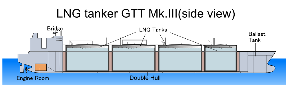 LNG tanker GTT MkIII (side view) with text